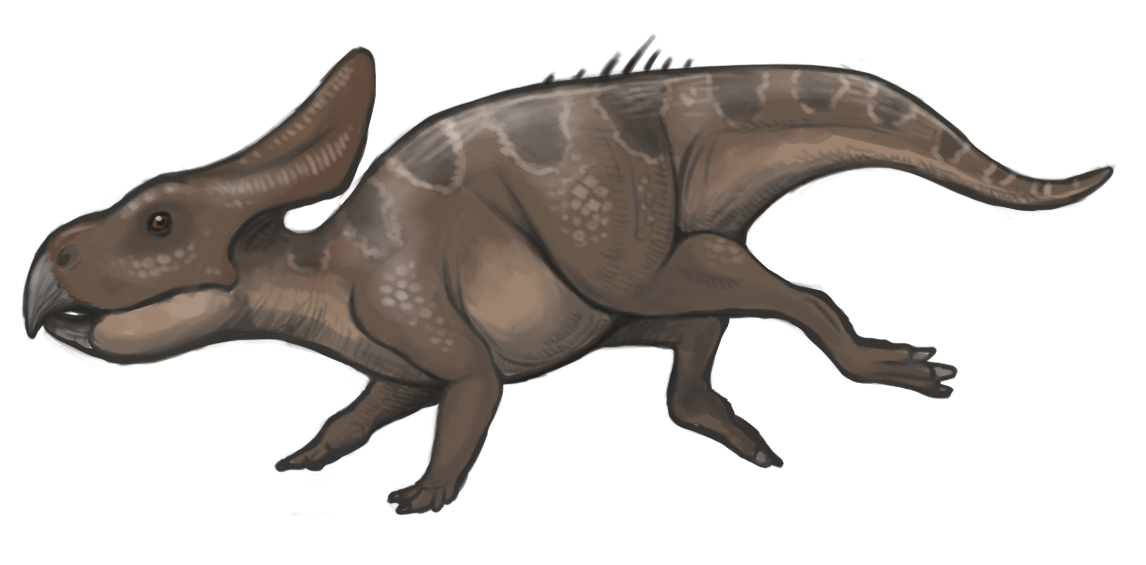 Simple reconstruction of Protoceratops andrewsi, the late Cretaceous Mongolian ceratopsian.